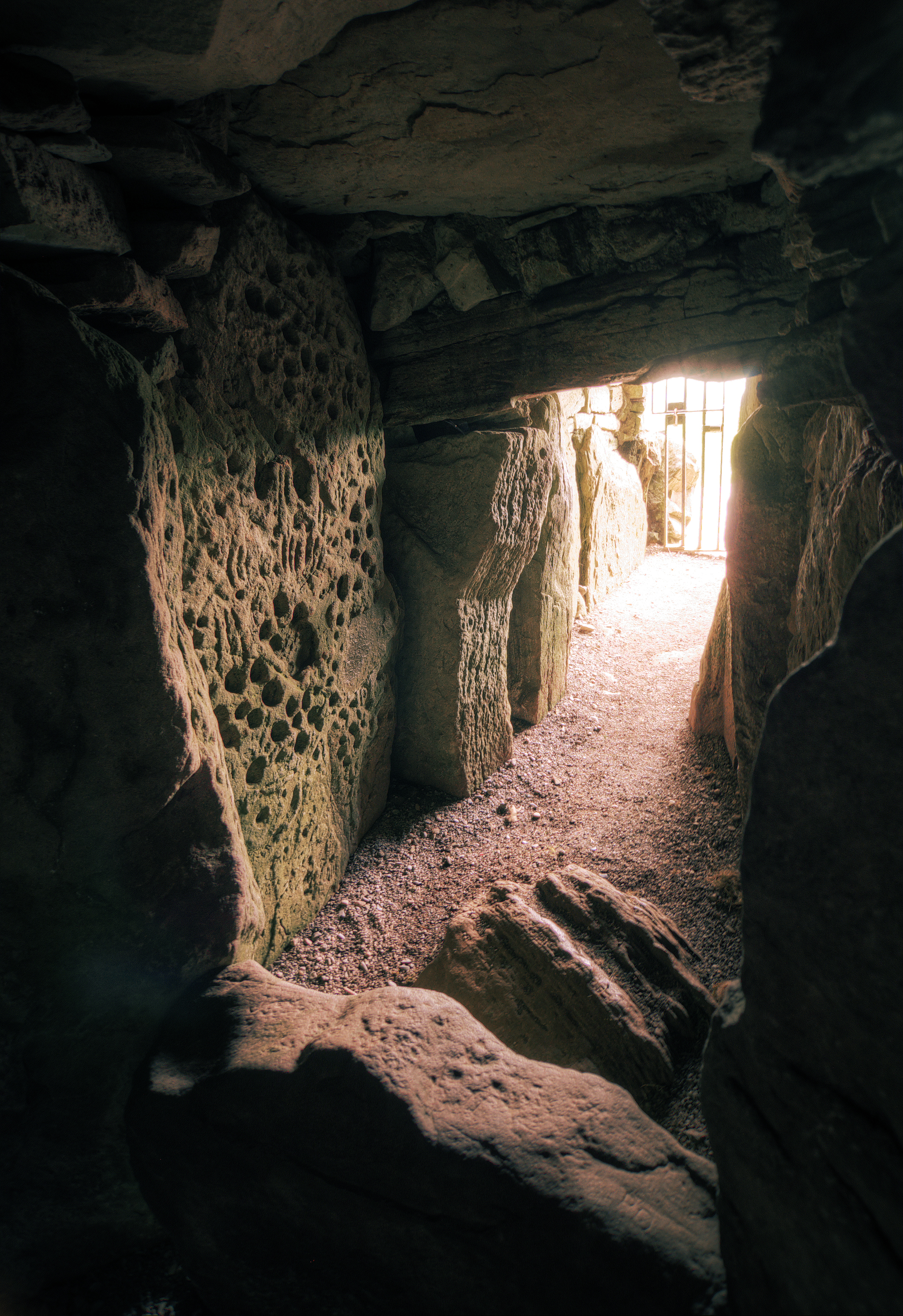 Loughcrew Passage Tomb cairn T, The wall on the left is pitted with so-called "cup marks". When the tomb was opened, a large number of chalk balls were found at the base of this stone. These balls fitted the stone precisely; they may represent the stars in the sky.